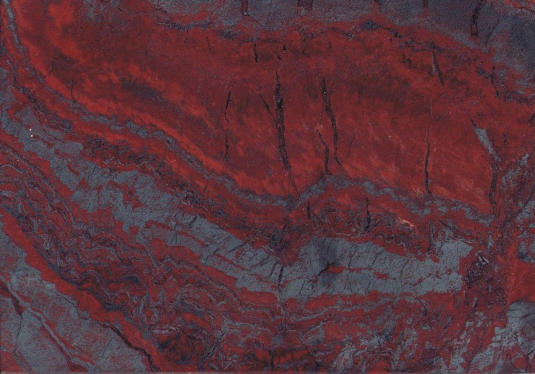 rock sample from a banded iron formation (BIF), polished surface (size app. 11 x 8 cm)